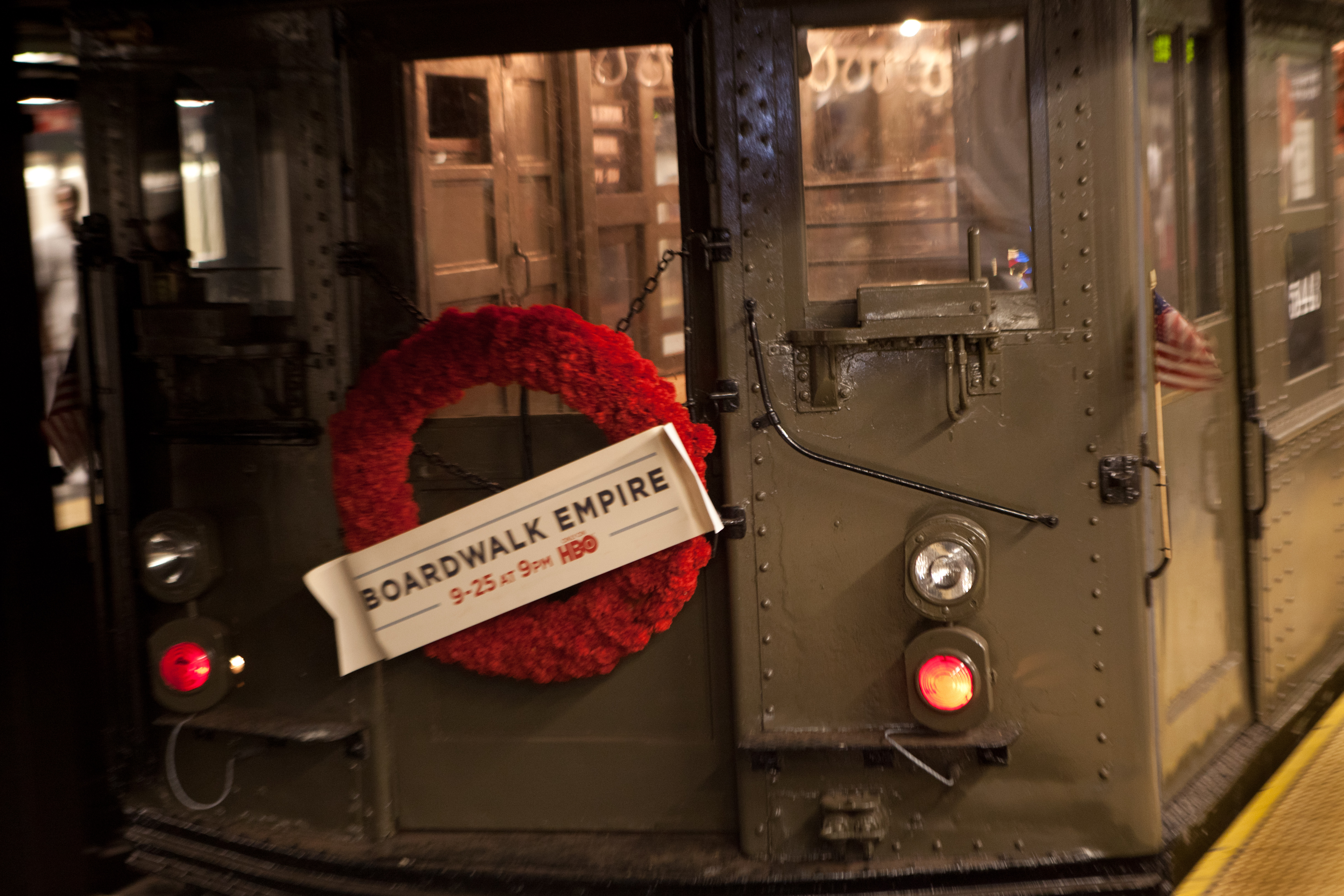 To promote the start of the second season of Boardwalk Empire, the producers paid the NY Metropolitan Transportation Authority $150,000 to operate the museum train of four Lo-V(oltage) subway cars for each weekend in September 2011. This is train 5443. The train operated between the hours of 12 noon and 6 PM and ran as an express between the 96th St and 42nd St-Times Square stations.